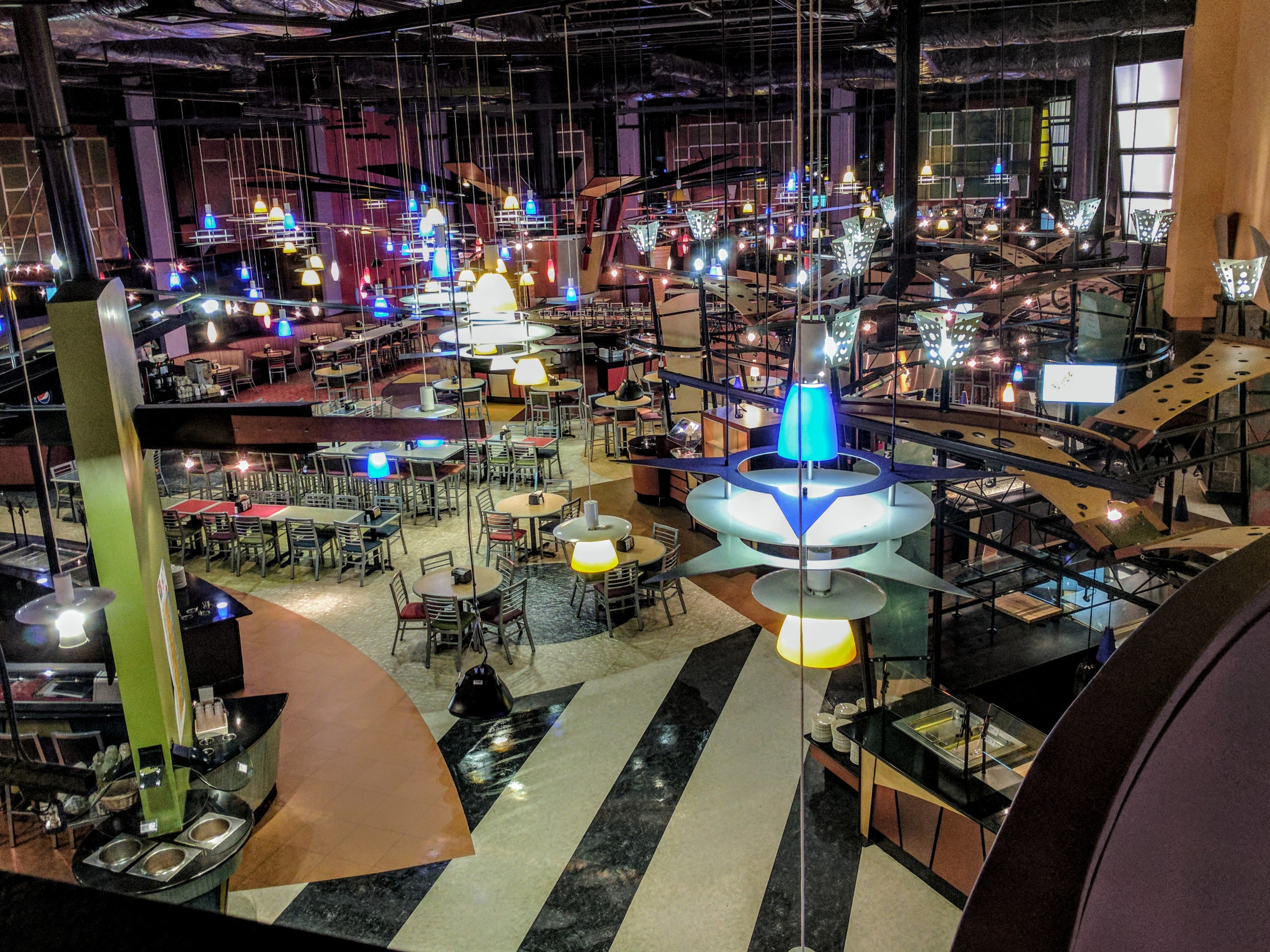 Looking down at the student center cafeteria at Rowan University in Glassboro, NJ-US.